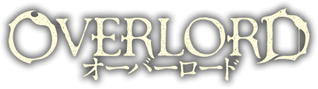 Overlord logo